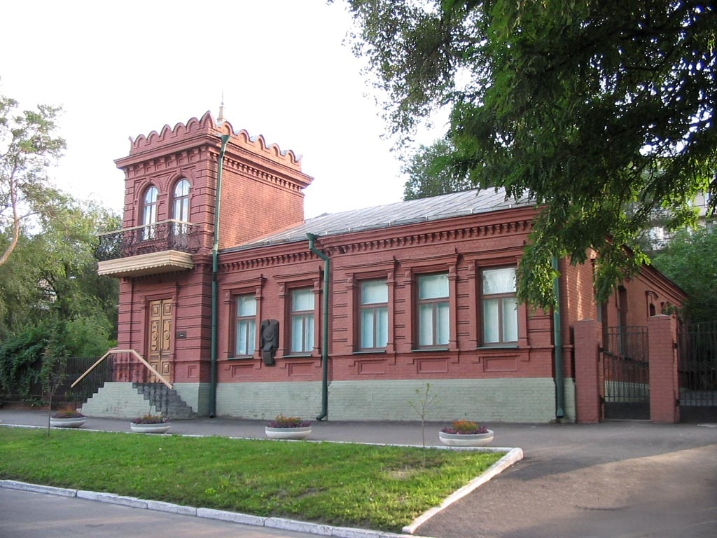 House museum of Dmytro Yavornytskyi in Dnipropetrovsk, Ukraine.